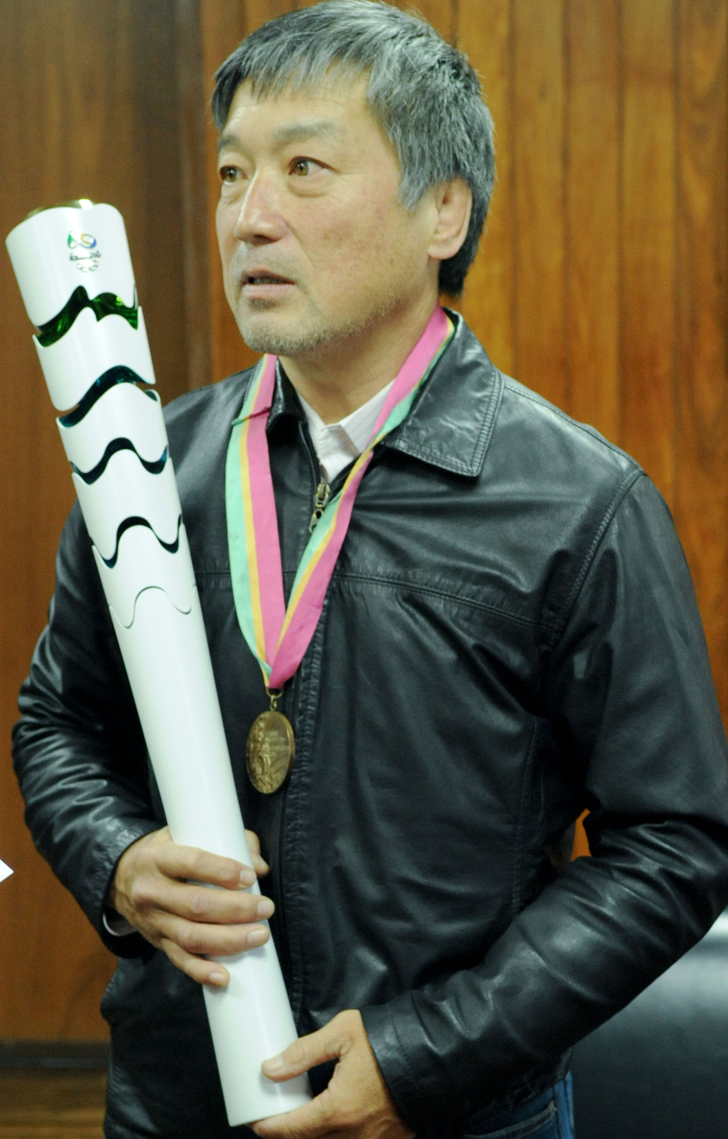 Luiz Onmura with the Olympic medal of the 1984 games, holding the Olympic torch of the Rio 2016 Olympic games